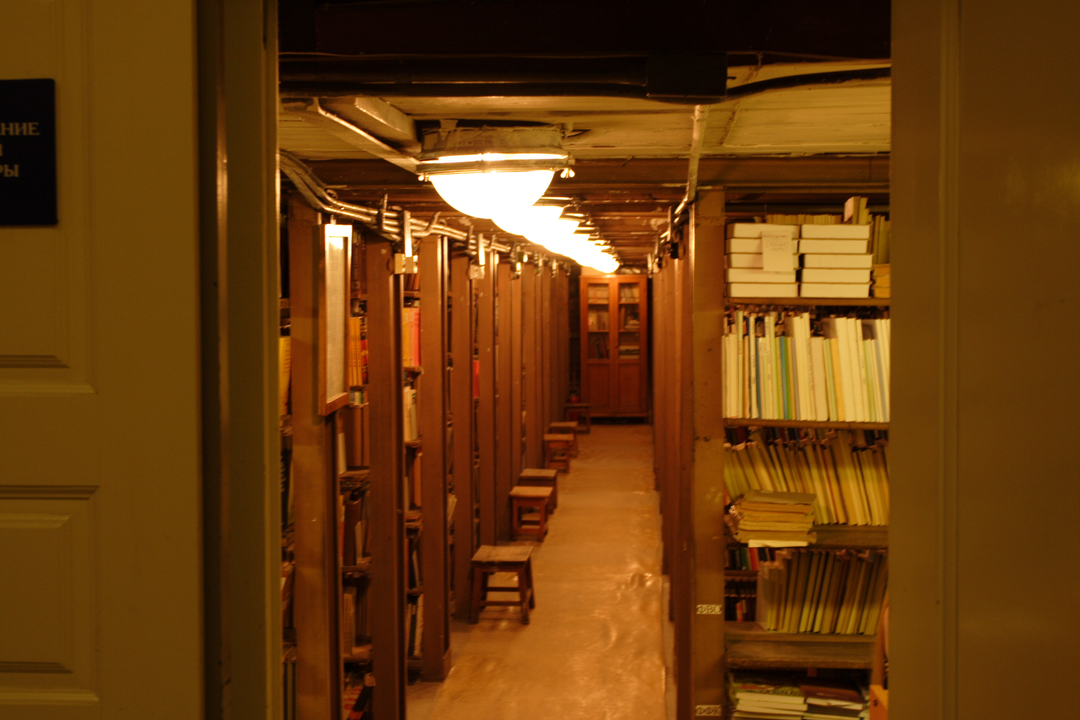 Archives of USTU, Yekaterinburg